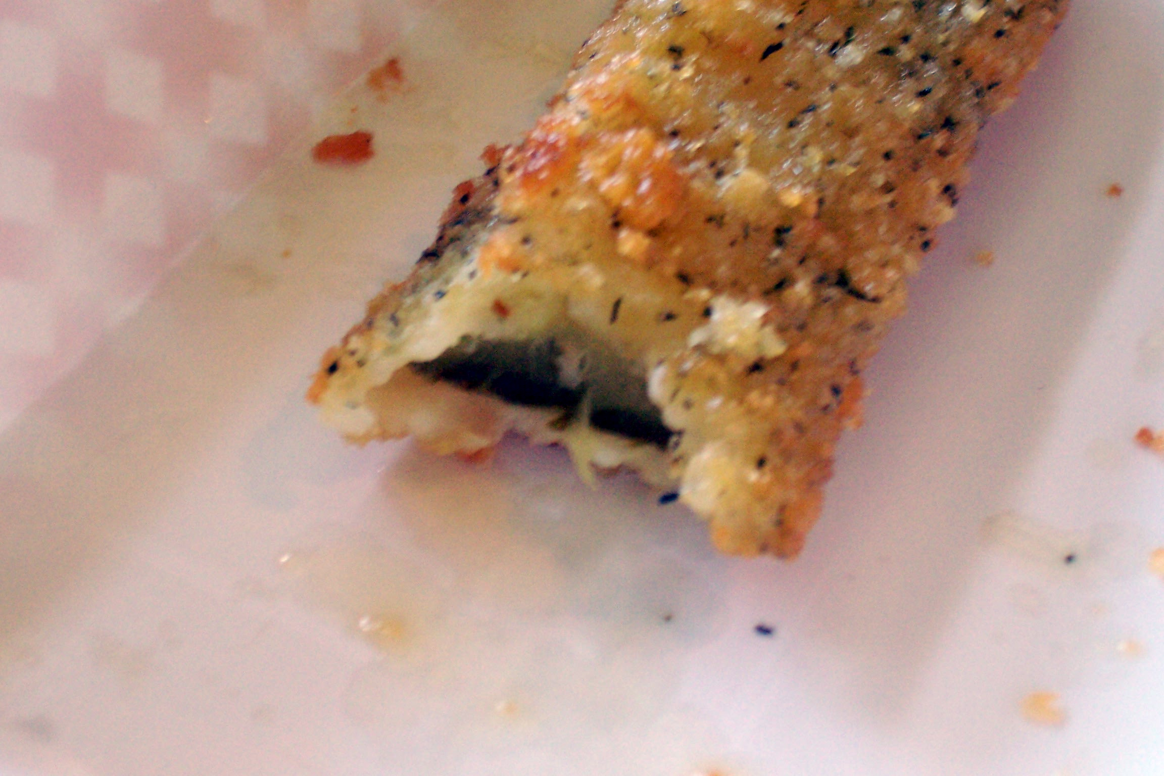 A breaded pickle. The pickle in question was purchased at the eatery in the "Wild Africa" exhibit of Binder Park Zoo.